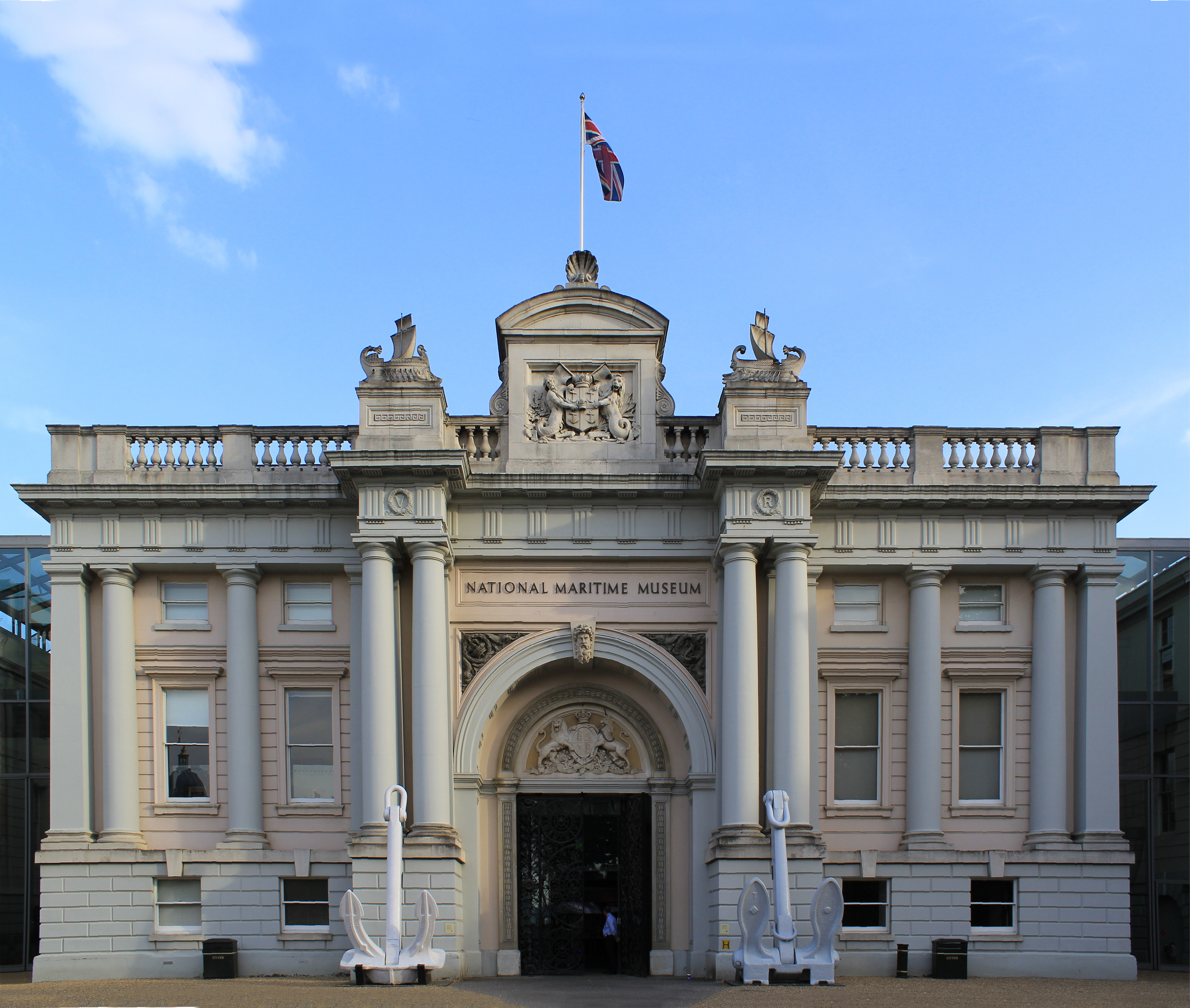 National Maritime Museum